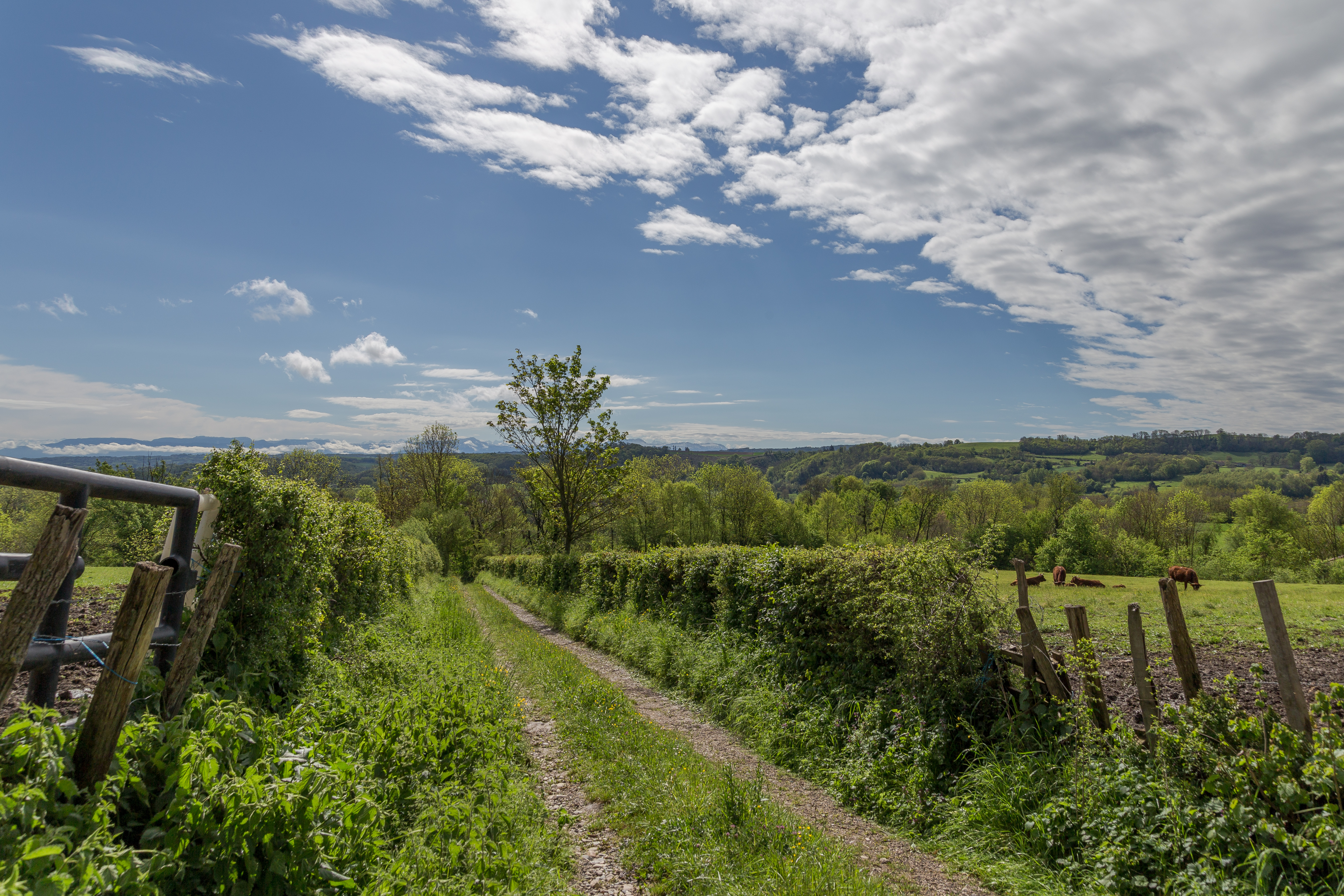 Panorama on Maubec pastures, Isère.